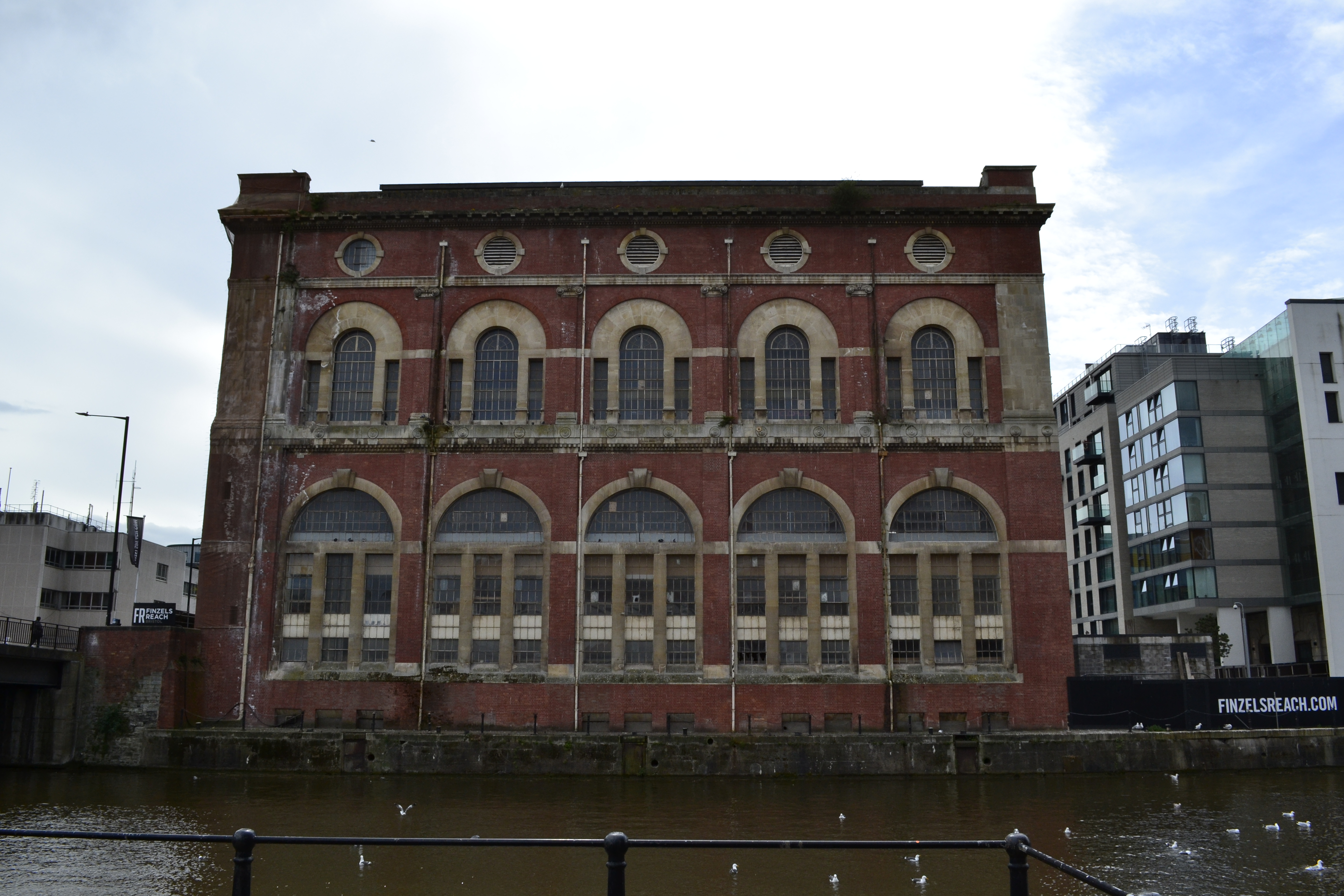 The tramways electricity generating station on the bank of the floating harbour which is being prepared to be regenerated as part of the Finzels Reach development